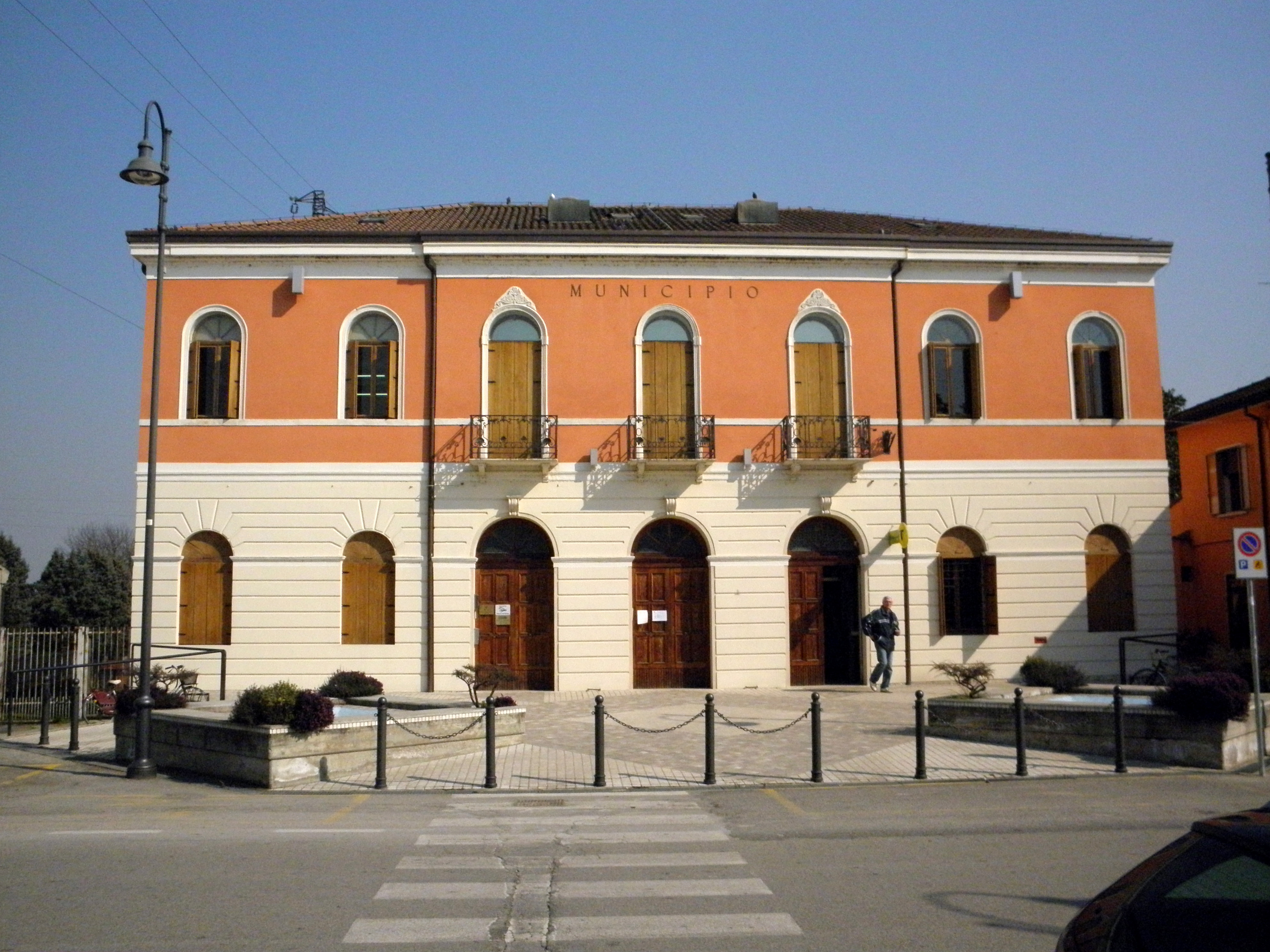 Villanova del Ghebbo Town hall.